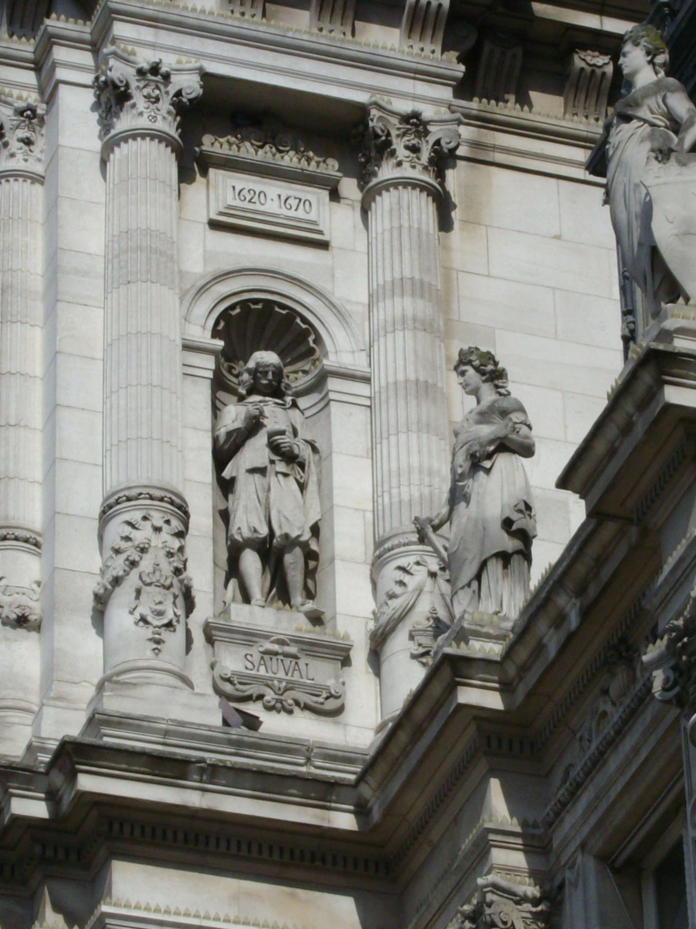 Statues of the City Hall in Paris, France. Statue of Henri Sauval (1623-1676) [dates corrected], historian of Paris.